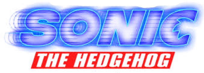 Sonic the Hedgehog - Logo for the 2020 movie directed by Jeff Fowler.